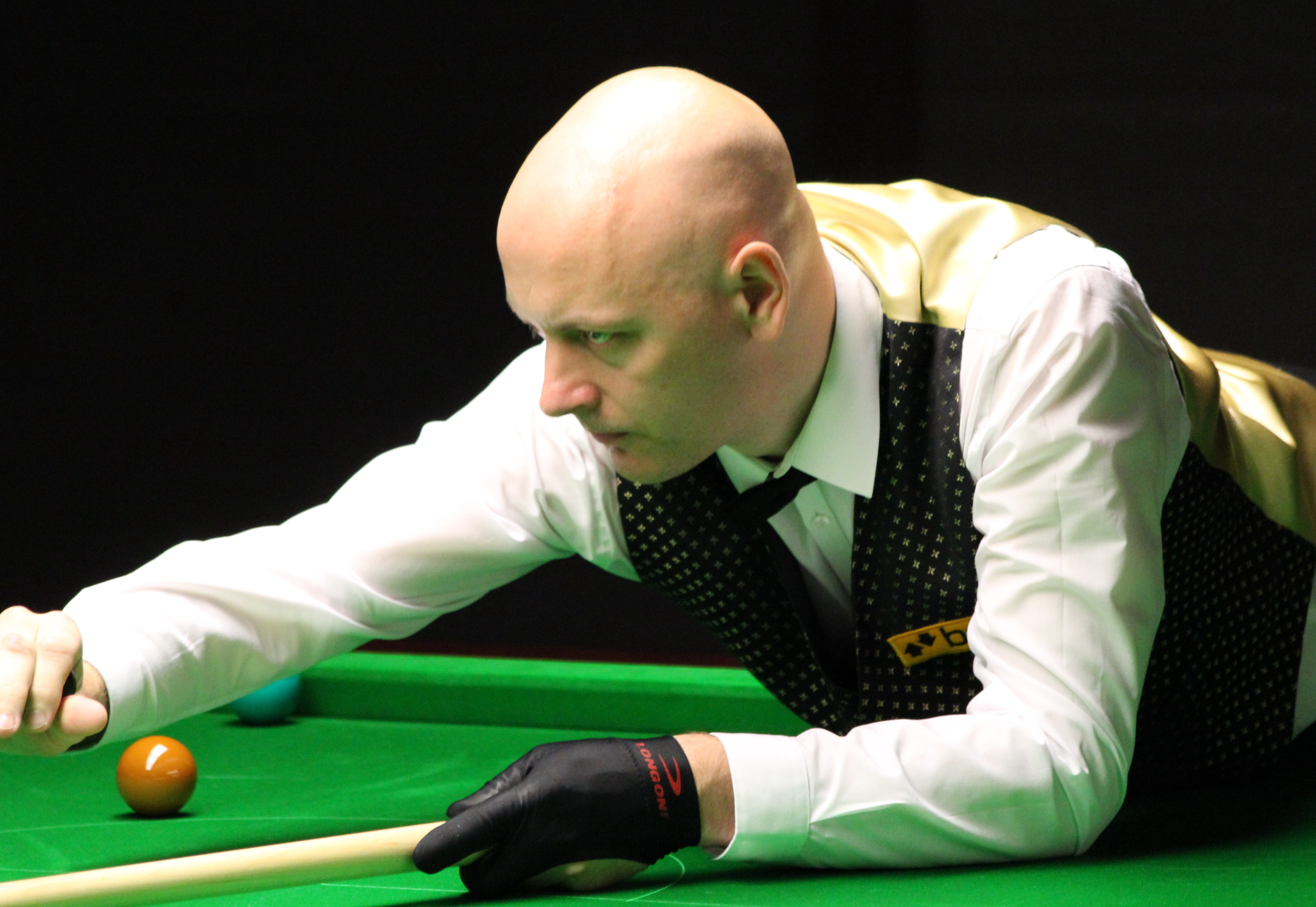 Jeff Cundy beim Paul Hunter Classic 2012